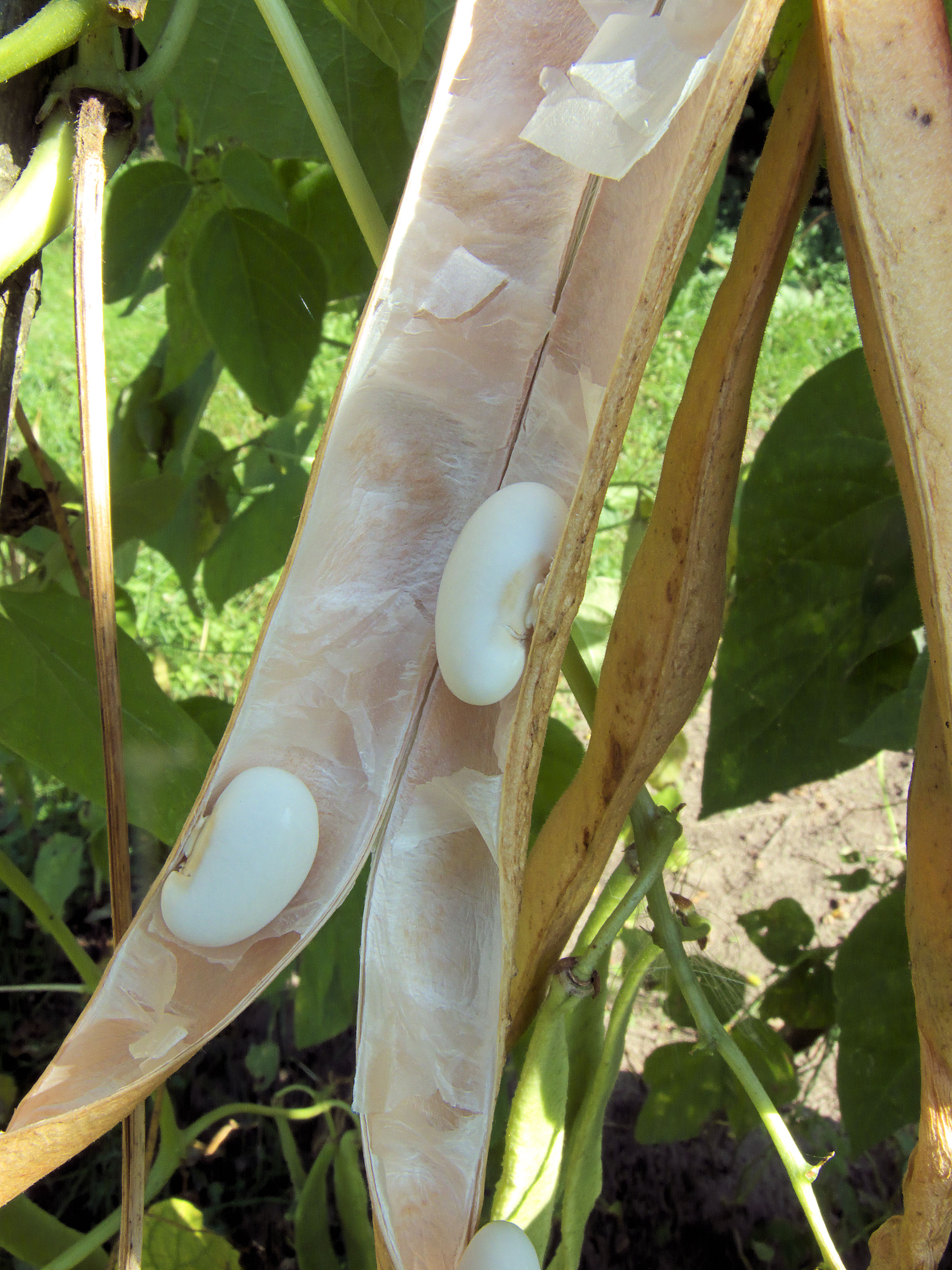 Phaseolus coccineus ripe seedpod